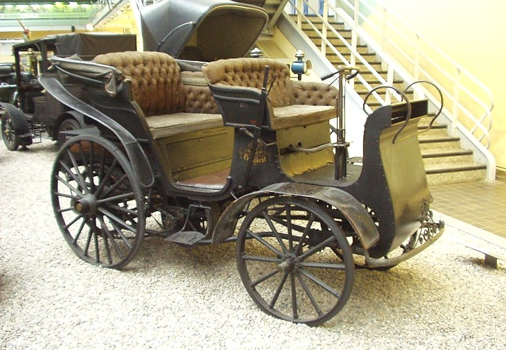 Präsident - first car from Kopřivnice (1897)